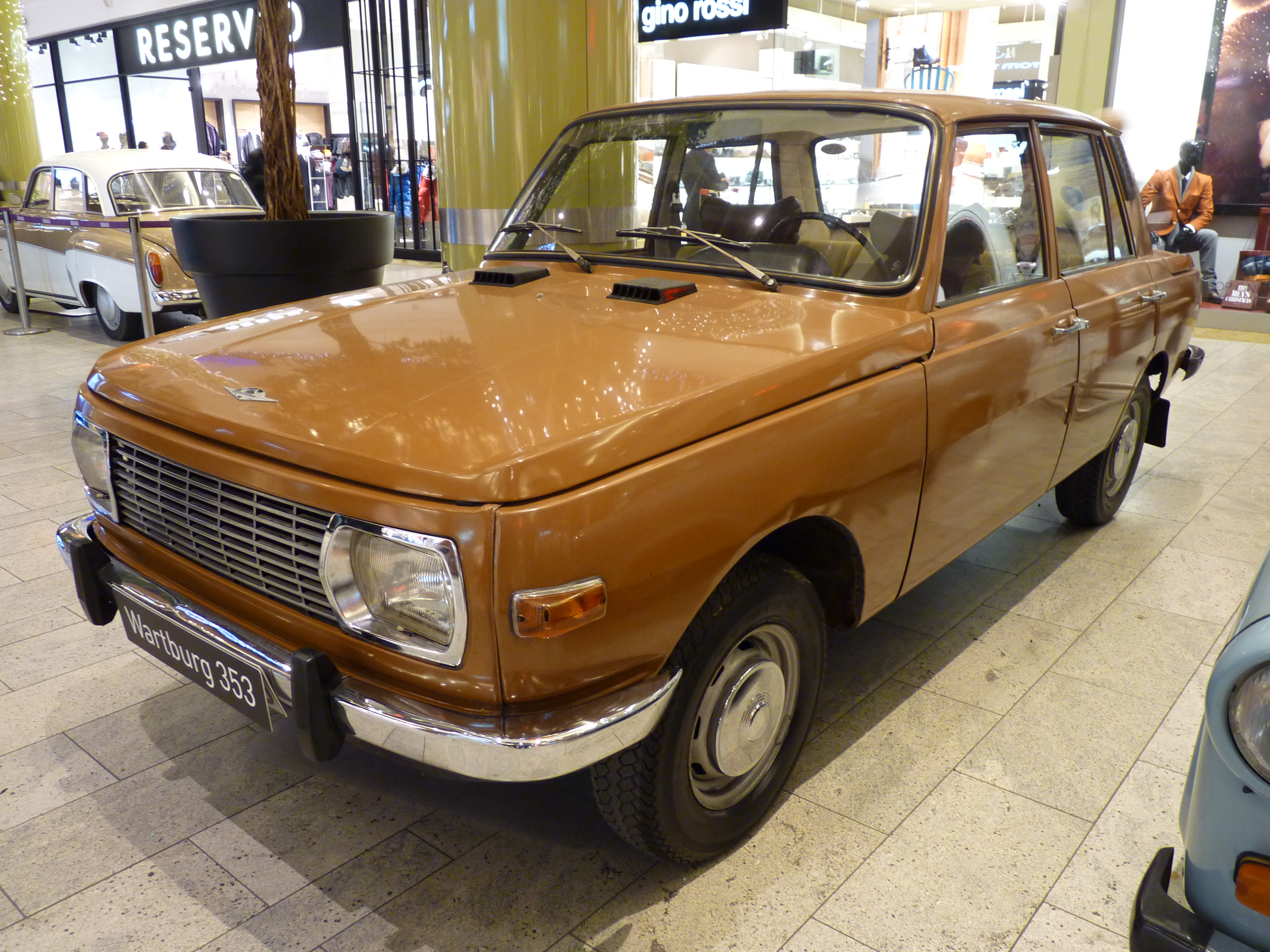 Wartburg 353W during „XXX lat motoryzacji PRL” exhibition at Bonarka City Center in Kraków.